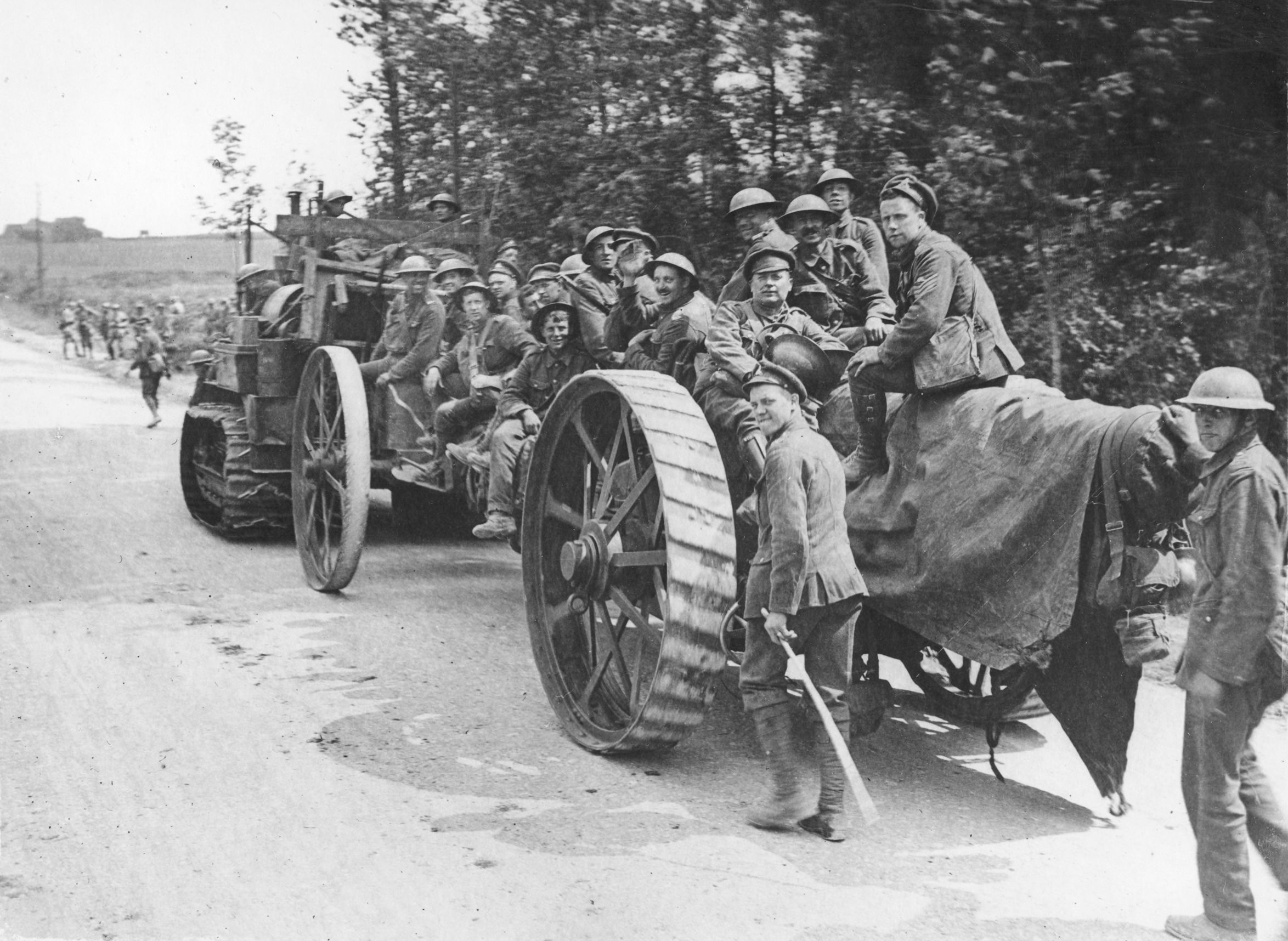 "OFFICIAL PHOTOGRAPH TAKEN ON THE BRITISH WESTERN FRONT IN FRANCE. Moving back our heavy guns as the enemy advances". Comment 1: Shows 8-inch Mk VI howitzer towed by Holt tractor. 286th Battery, 77 Bde, RGA. The photograph was taken on 27 May 1918 when retreating from a German offensive just outside the village of Romain on the way to Fismes. Identified is Gunner Toy 99566 (Joseph Arthur Toy) in cap above carriage wheel.[1]